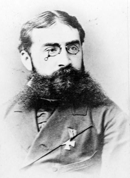 Russian theatre director Vladimir Ivanovich Nemirovich-Danchenko (1858-1943)